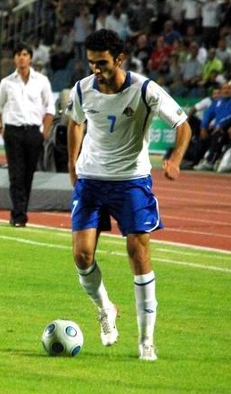 Vagif Javadov against Russia